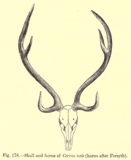 Skull and antlers of an axis deer